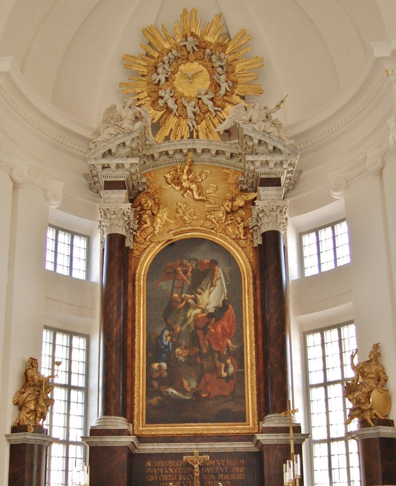 Kalmar Chatedral.The Altar table is performed by 1712 by Kaspar Schroeder after a drawing by Nicodemus Tessin the younger, 1704. It consists of three parts in addition of sarkofagaltaret depicting the Trinity of God. Set which is based on two strong columns decorated with a golden image field depicting, "God as creator". The top is surmounted by an strålsol with the "Holy Spirit" in the Middle, in the form of a dove omkransad of angels.The large altarpiece that is inserted in the columns have been painted by David von Krafft and is a mirror copy of Charles Le Bruns large painting "Descente de croix", found at the Musée des Beaux-Arts of Rennes.